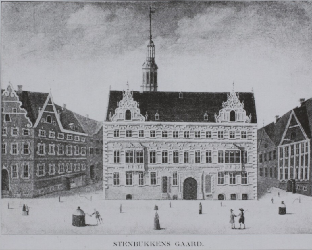 Illustration of Stenbukkens Gaard on Højbro Plads in Copenhagen, Denmark